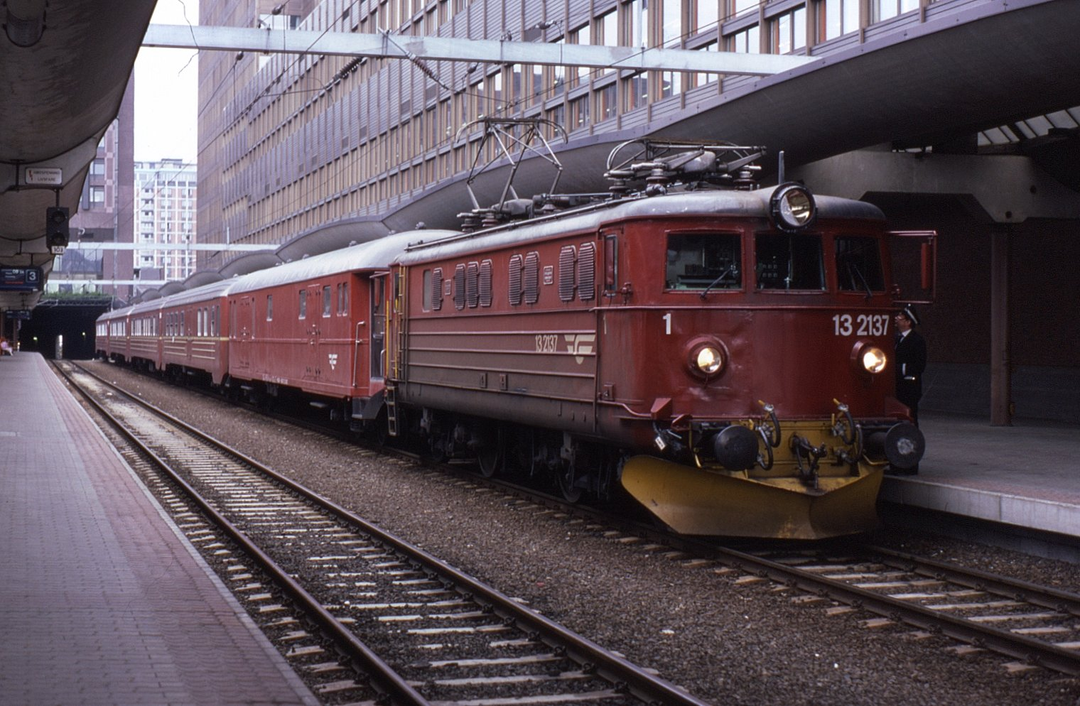 Class El13 no. 13.2137 at Oslo Central Station on 8 June 1986.